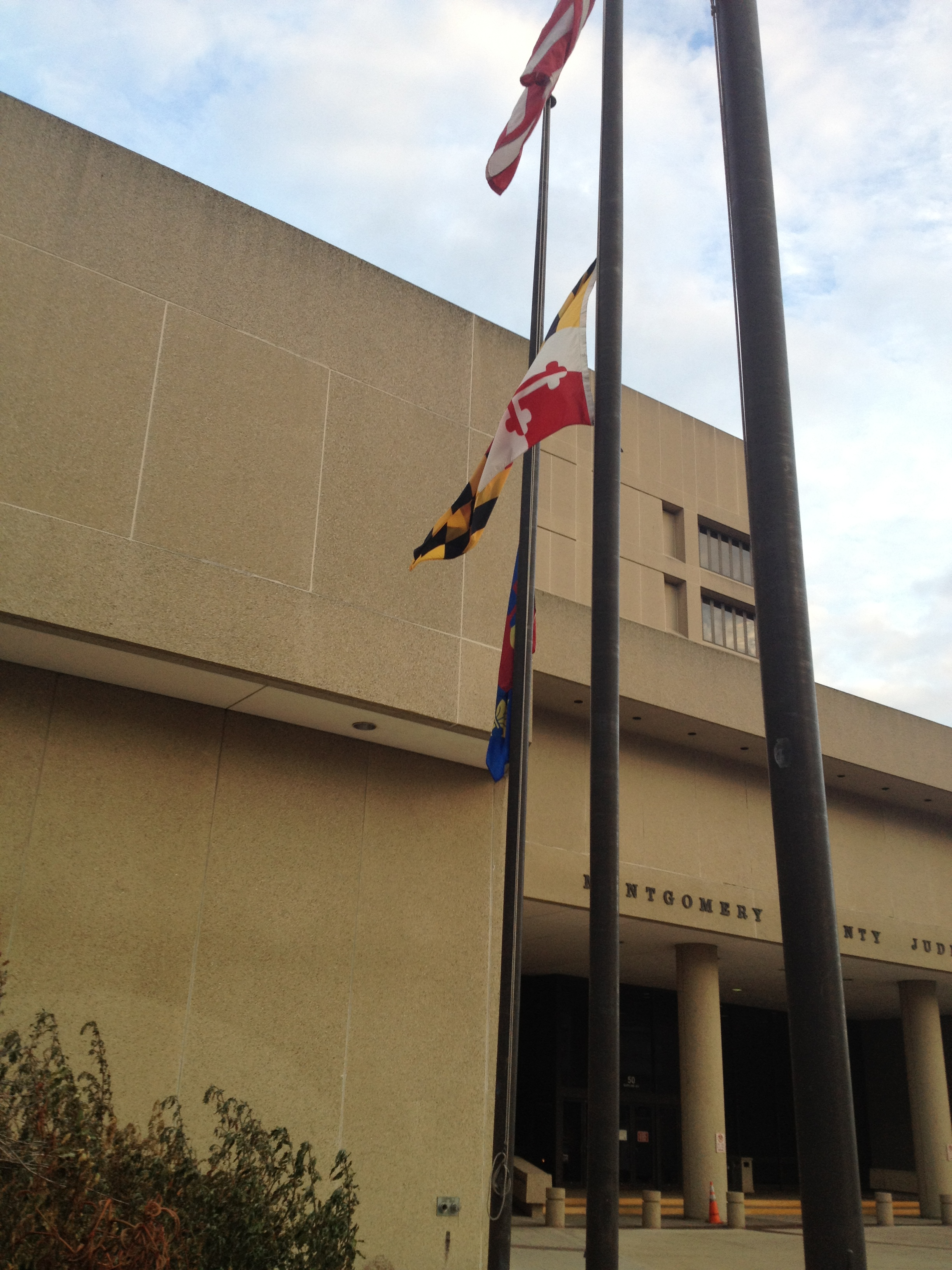 Montgomery County Judicial Center, located in Rockville, Maryland